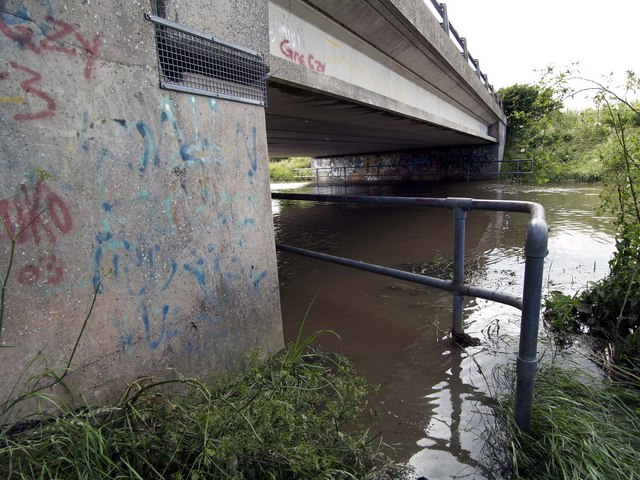 A1033 Burstwick Drain Flyover Bridge, south west of Hedon, East Riding of Yorkshire, England.As seen here, the bridge was a victim of the June 2007 floods. The fence in the foreground and also the other at the other side normally provide pedestrians with some security when using the twin paths at either side of the drain. Both paths on this occasion are some 30cm below the drain water level and are of no use whatsoever!